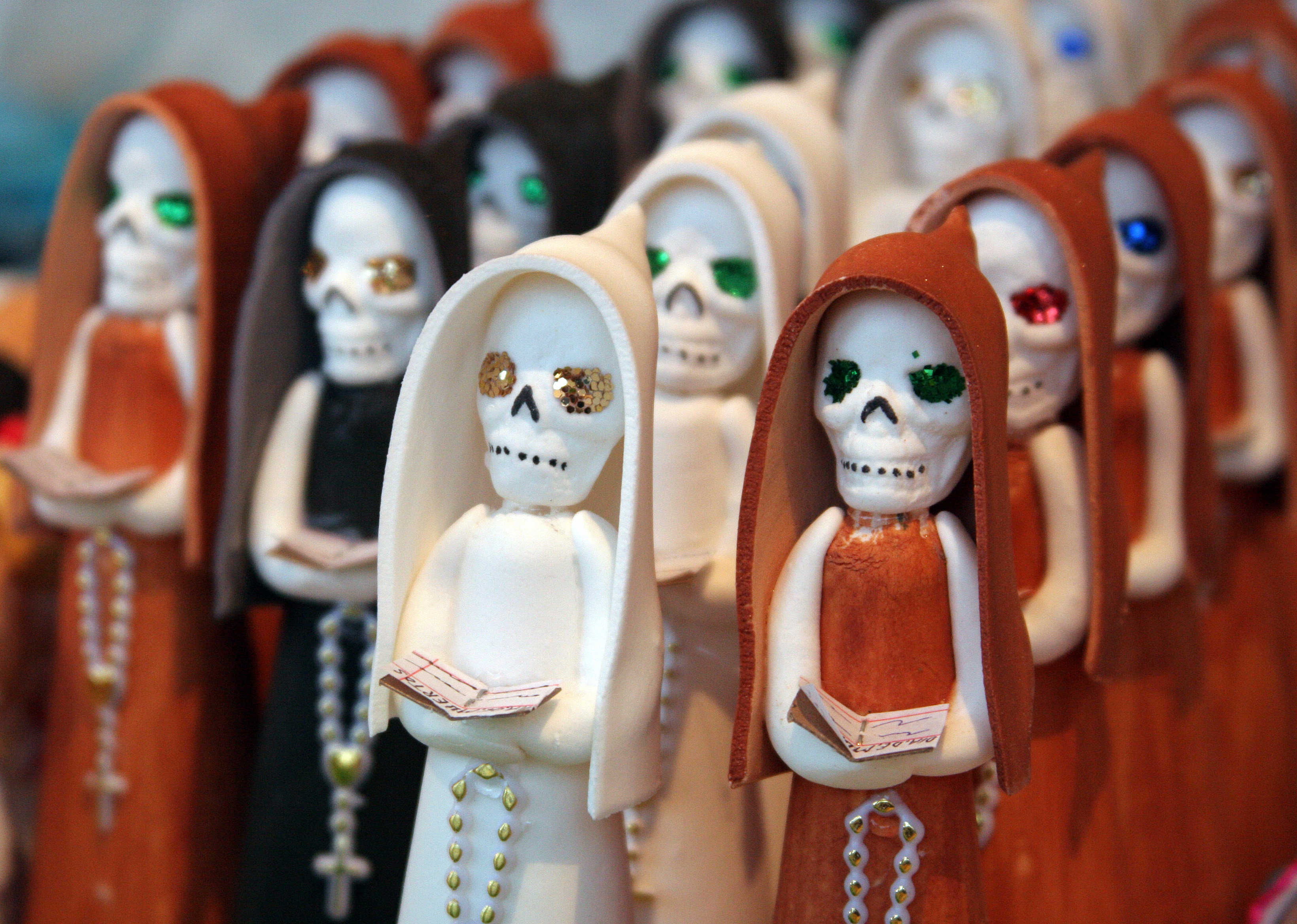 Alfeñiques are traditional sugar-made figures of the Day of the Dead celebration in Mexico